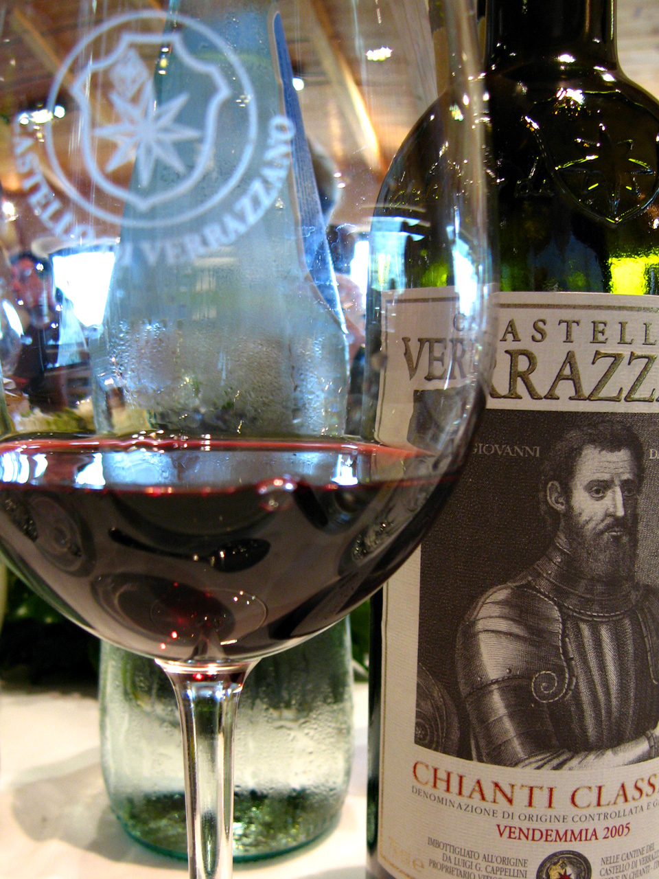 Castello di Verrazzano is a Chianti wine, Tuscany - Italy.